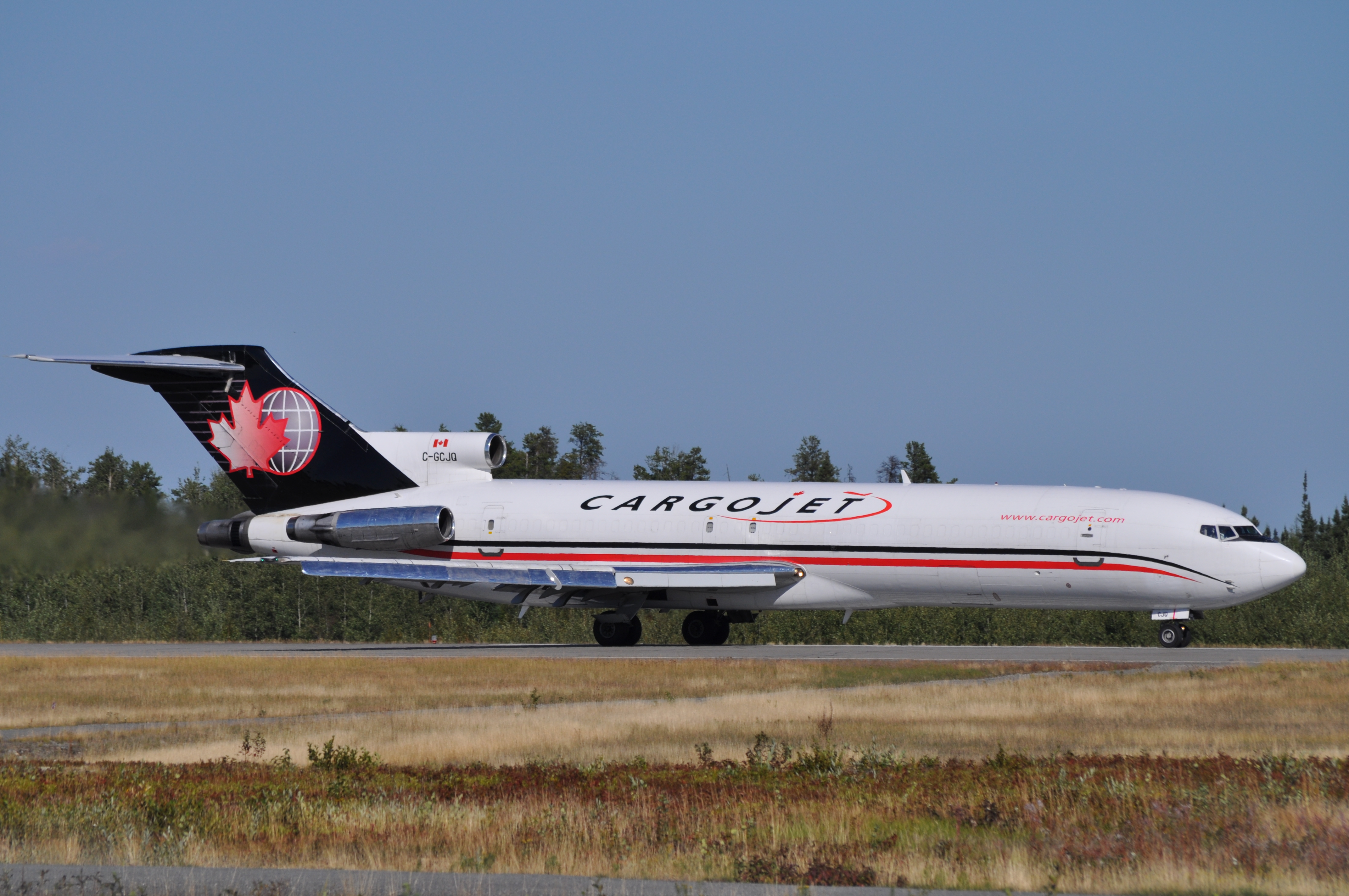 Cargojet 727 taking off Val-d'Or (CYVO).